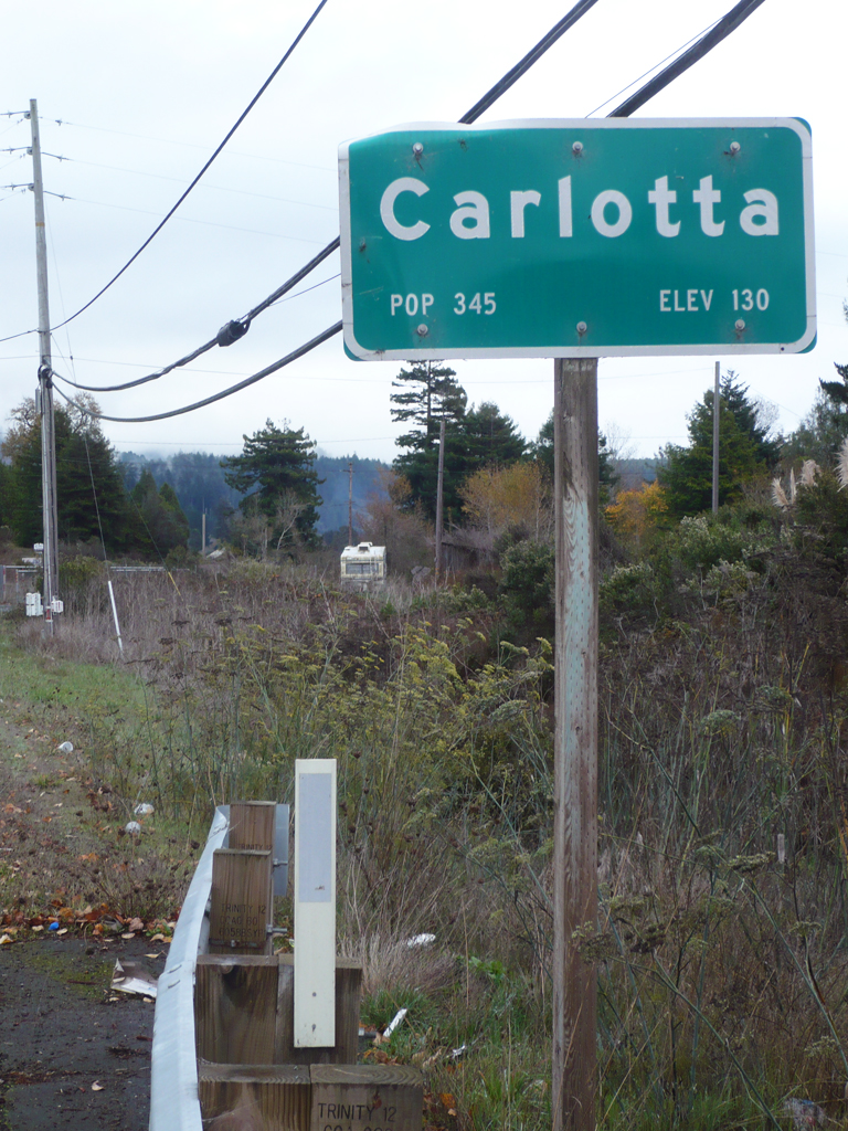 The town sign of Carlotta, California - a former mill town along Route 36 in Humboldt County, California